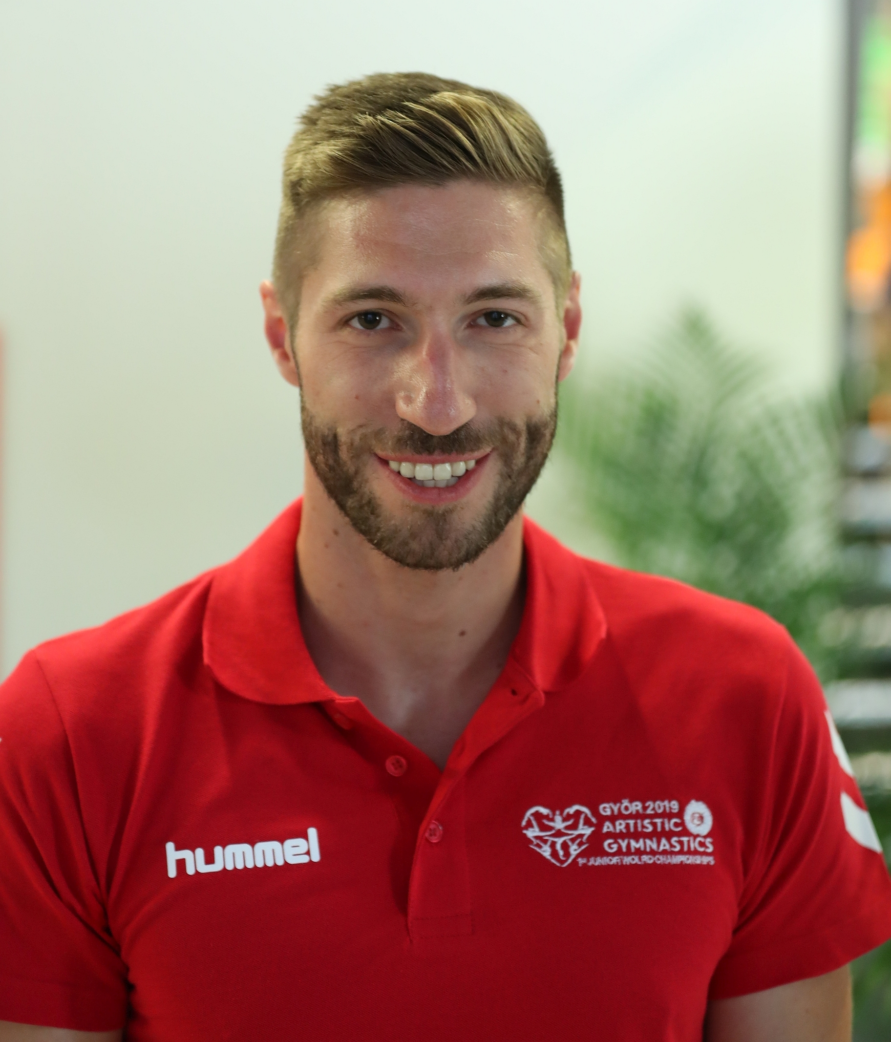 Impressions from the victory ceremony of the apparatus finals at the 1st FIG Artistic Gymnastics Junior World Championships on 30 June 2019 in Győr, Hungary.